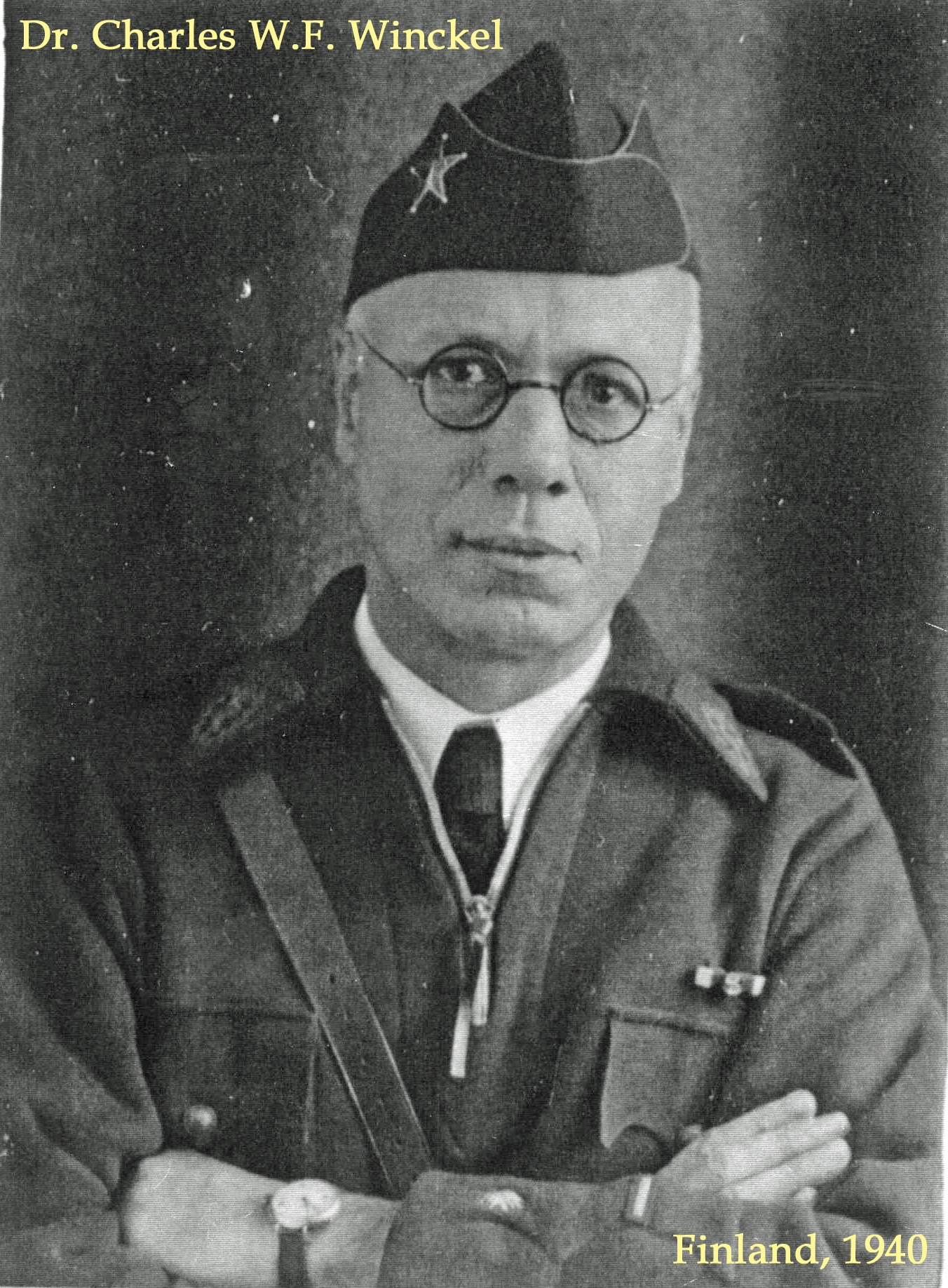 Charles Winckel